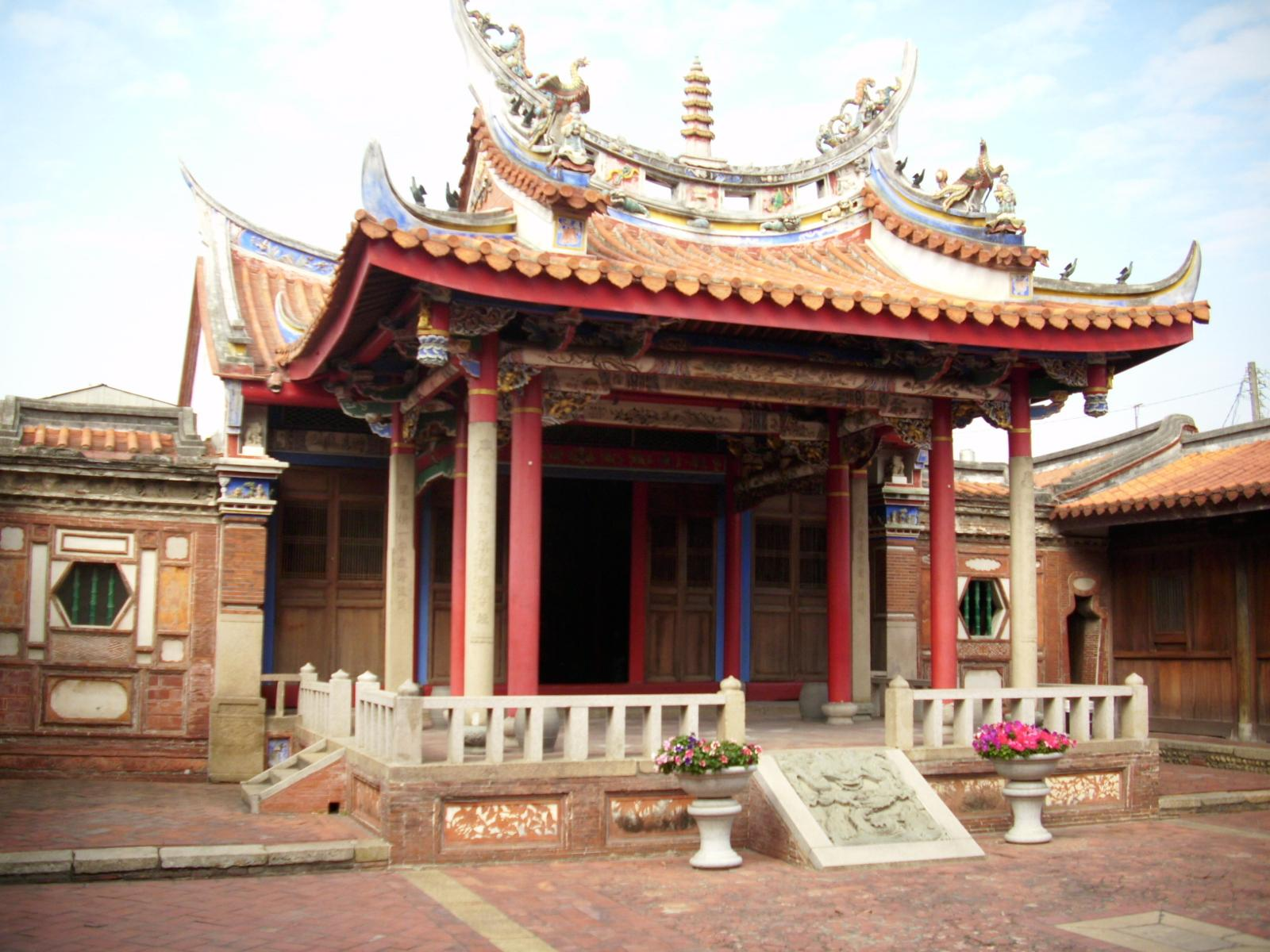 Huanĝi Academy, Dadu District, Taichung.中文（台灣）: 位在台中市大肚區磺溪里的磺溪書院。